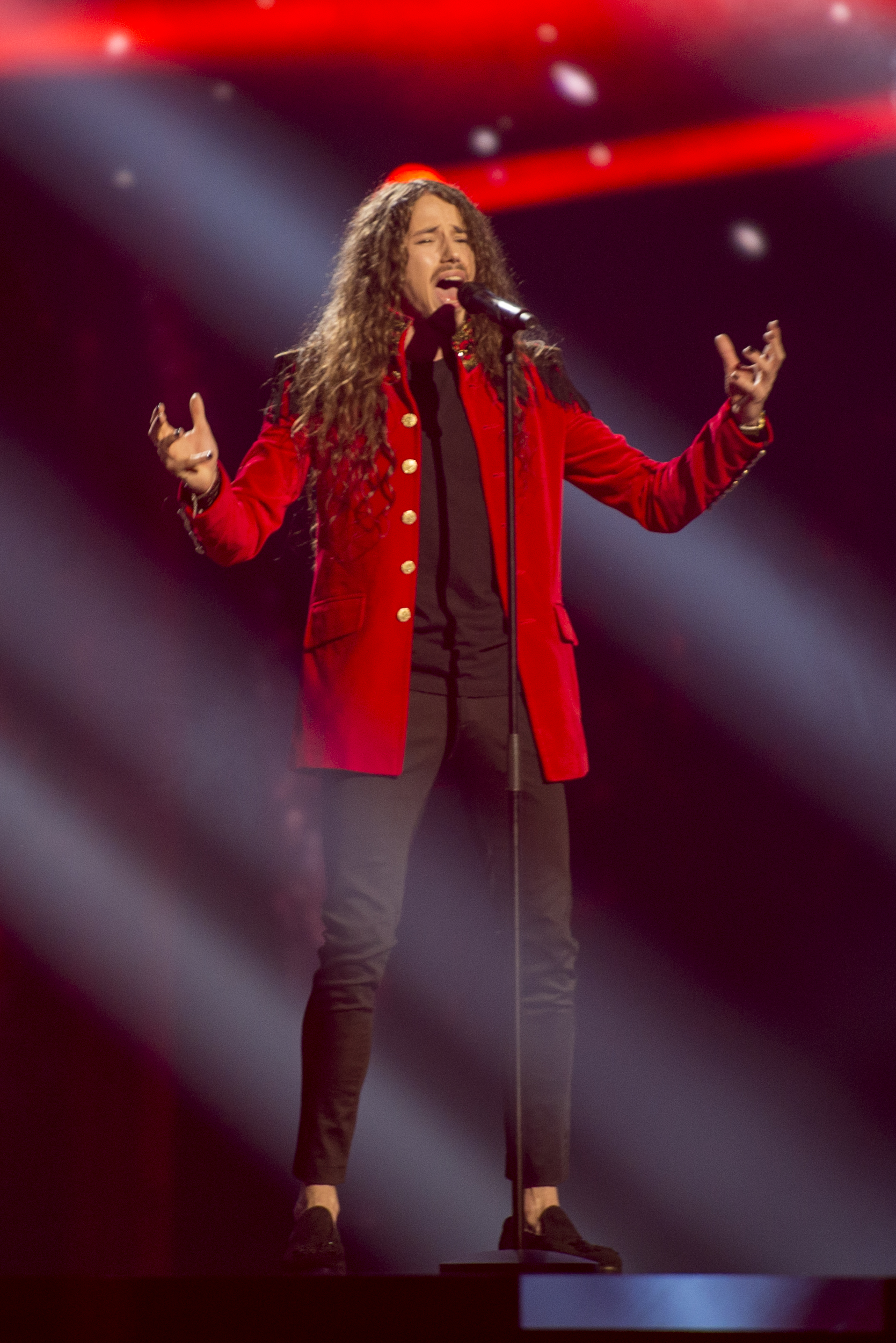 Michał Szpak representing Poland with the song "Color Of Your Life" during a rehearsal before the second semi final of the Eurovision Song Contest 2016 in Stockholm. (Help translate this text)